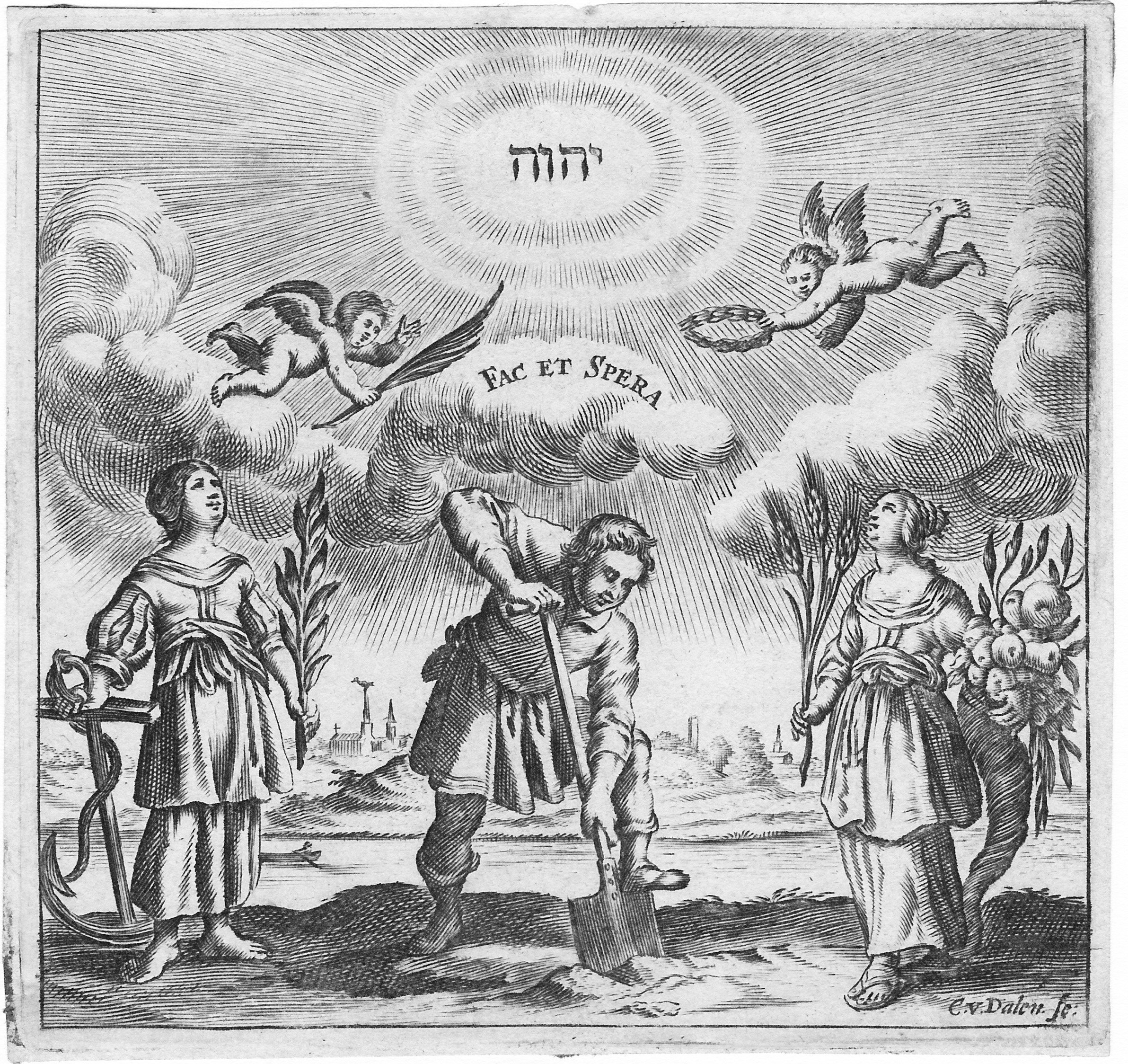 Cornelis van Dalen, "Fac et spera", Allegory of activity and hope, Engraving about 1650. Private posession.